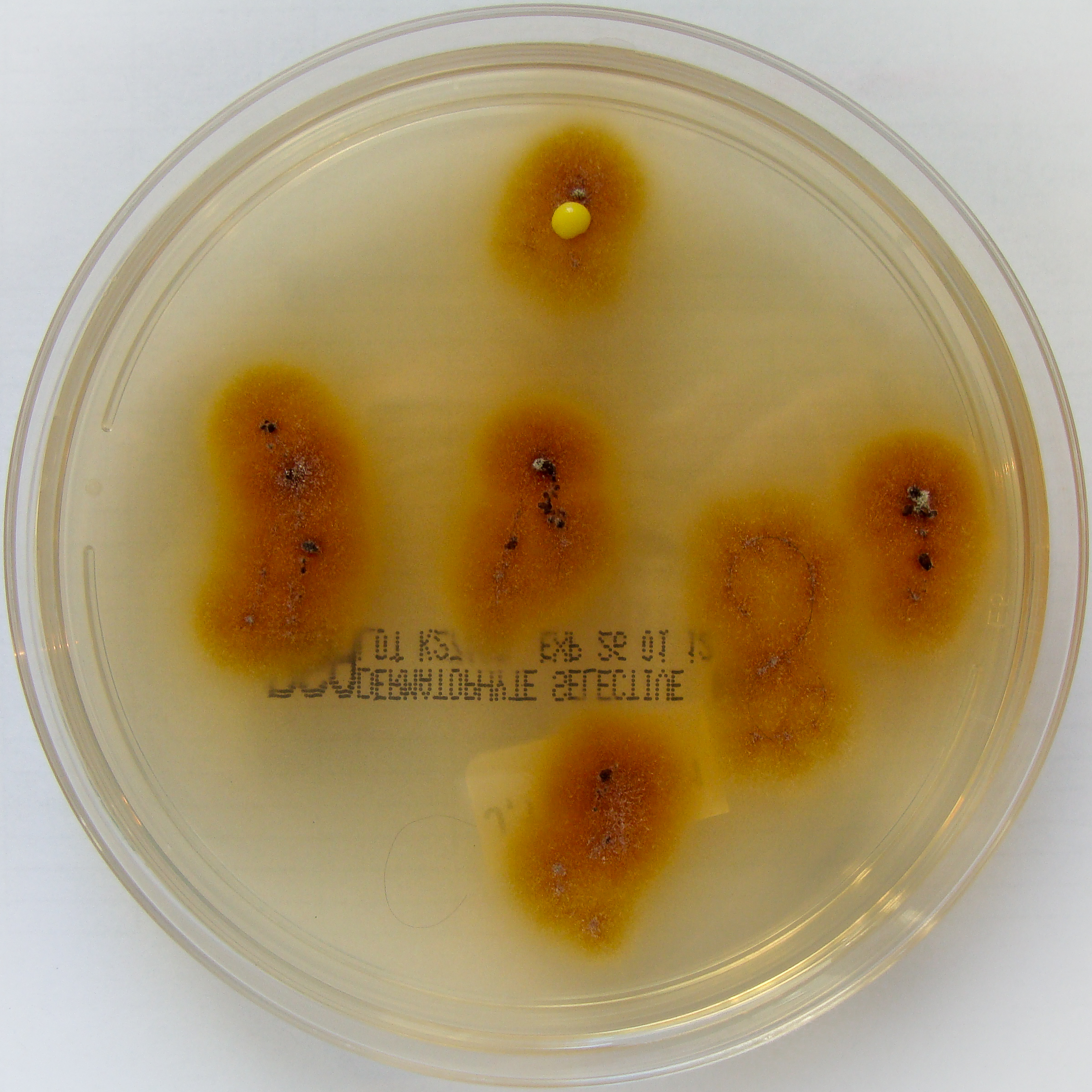 Trichophyton tonsurans on Dermatophyte Selective Agar